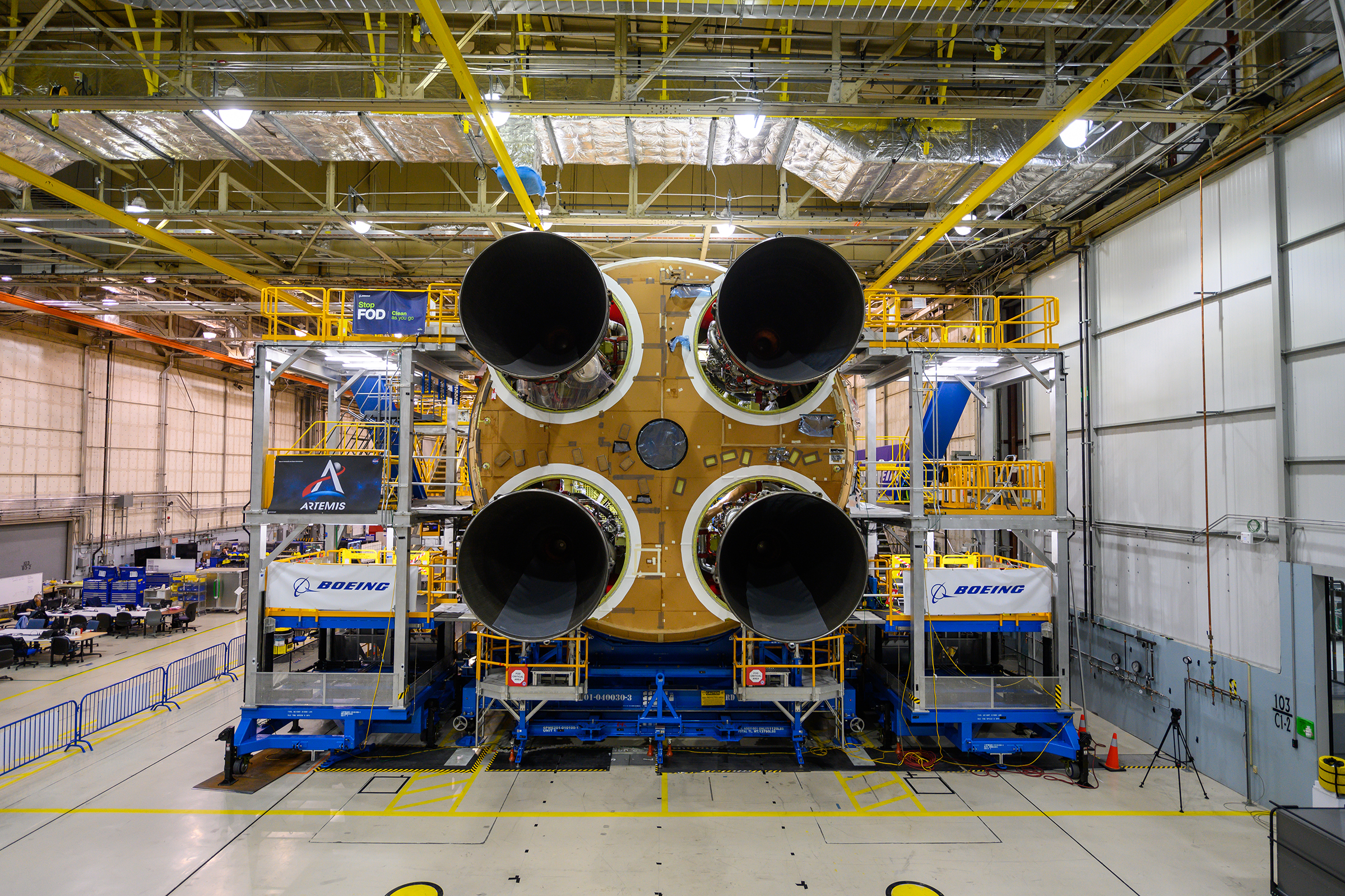 All four RS-25 engines were structurally mated to the core stage for NASA's Space Launch System (SLS) rocket for Artemis 1, the first mission of SLS and NASA's Orion spacecraft. To complete assembly of the rocket stage, engineers and technicians are now integrating the propulsion and electrical systems within the structure. The completed core stage with all four RS-25 engines attached is the largest rocket stage NASA has built since the Saturn V stages for the Apollo Program that first sent Americans to the Moon. The stage, which includes two huge propellant tanks, provides more than 2 million pounds of thrust to send Artemis 1 to the Moon. Engineers and technicians at NASA’s Michoud Assembly Facility in New Orleans attached the fourth RS-25 engine to the rocket stage Nov. 6 just one day after structurally mating the third engine. The first two RS-25 engines were structurally mated to the stage in October. After assembly is complete, crews will conduct an integrated functional test of flight computers, avionics and electrical systems that run throughout the 212-foot-tall core stage in preparation for its completion later this year. This testing is the first time all the flight avionics systems will be tested together to ensure the systems communicate with each other and will perform properly to control the rocket’s flight. Integration of the RS-25 engines to the massive core stage is a collaborative, multistep process for NASA and its partners Boeing, the core stage lead contractor, and Aerojet Rocketdyne, the RS-25 engines lead contractor.